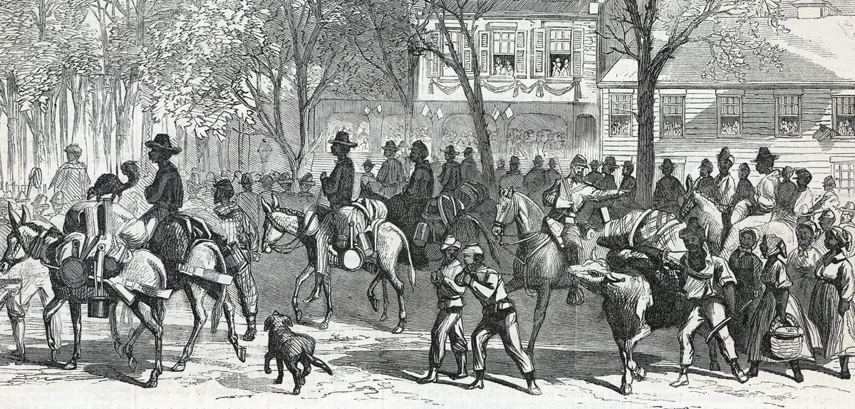 The "bummers" and foragers of Sherman's Army in the Grand Review, Washington D.C., May 24, 1865, From a sketch by our Special Artist J. E. Taylor. Archives and Special Collections, Dickinson College. Published in Frank Leslie's Illustrated Newspaper, June 10, 1865, p. 180.